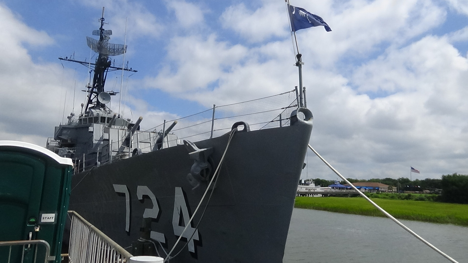 Patriots Point Naval And Maritime Museum